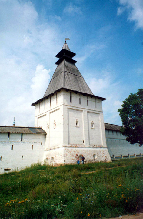 Pafnutievo-Borovskiy Monastery Tower